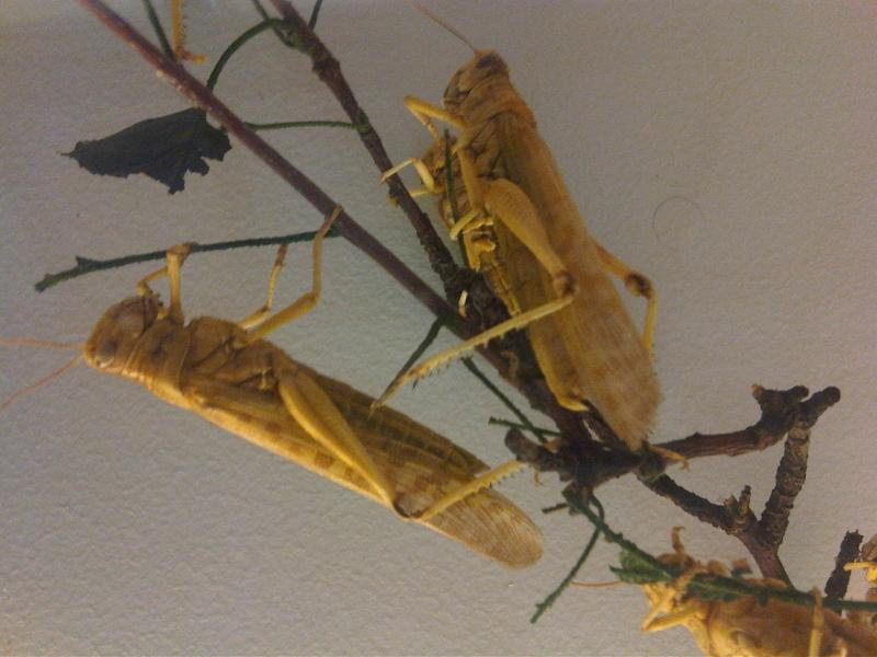 Desert locusts (Schistocerca gregaria) at the Natural History Museum in London, England.